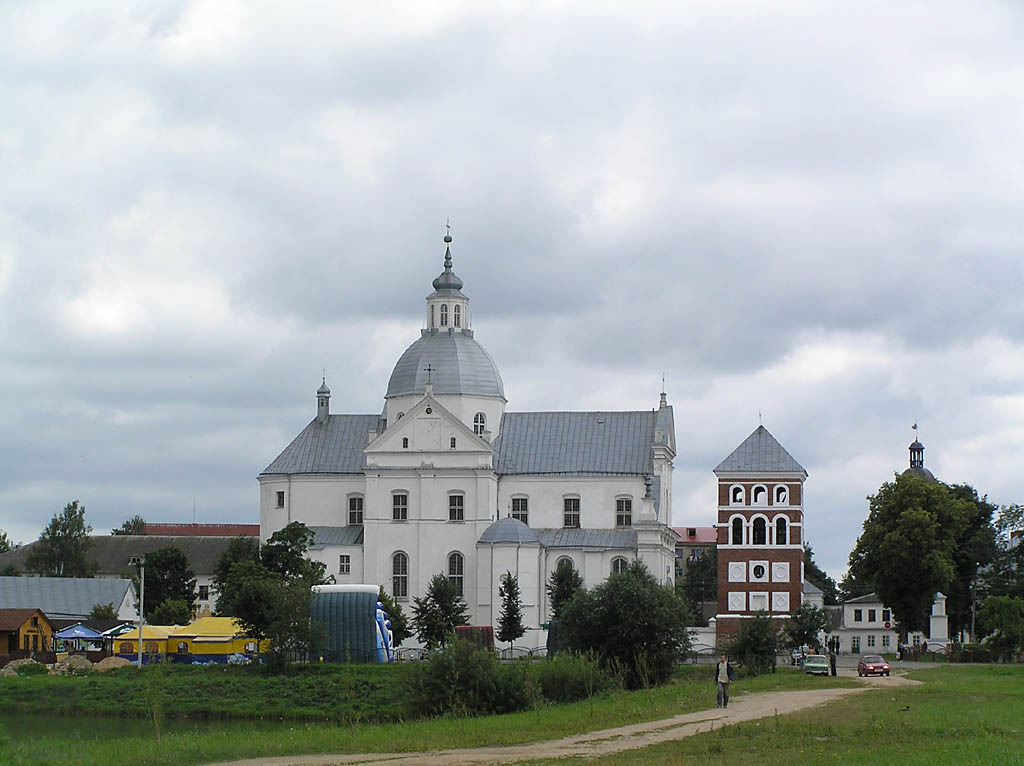 Church of the Corpus Christi, Niasvizh